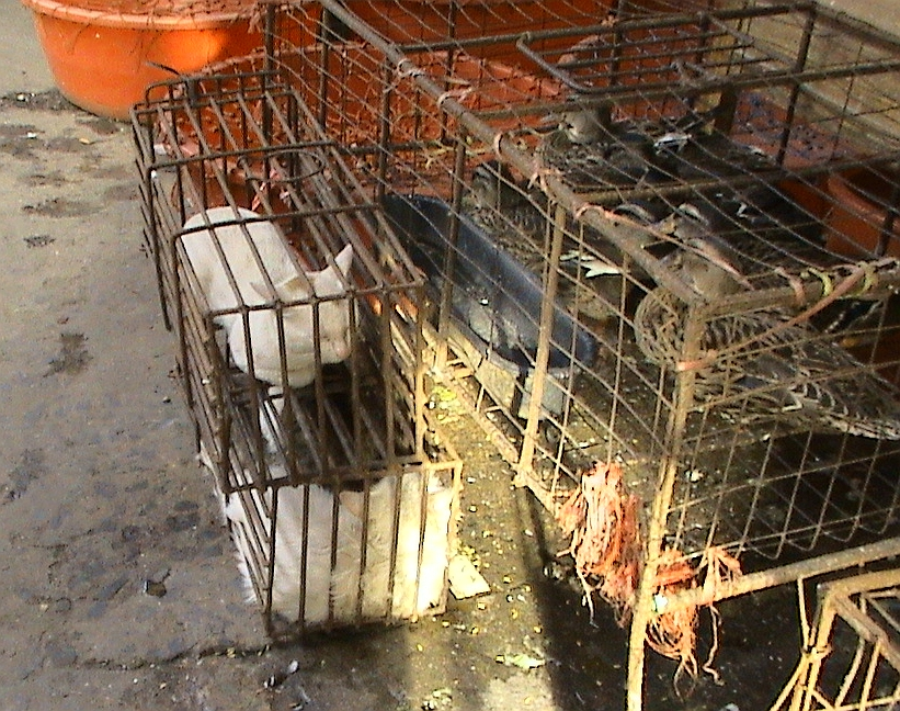 Cats before slaughter for cat meat. East Asian market.